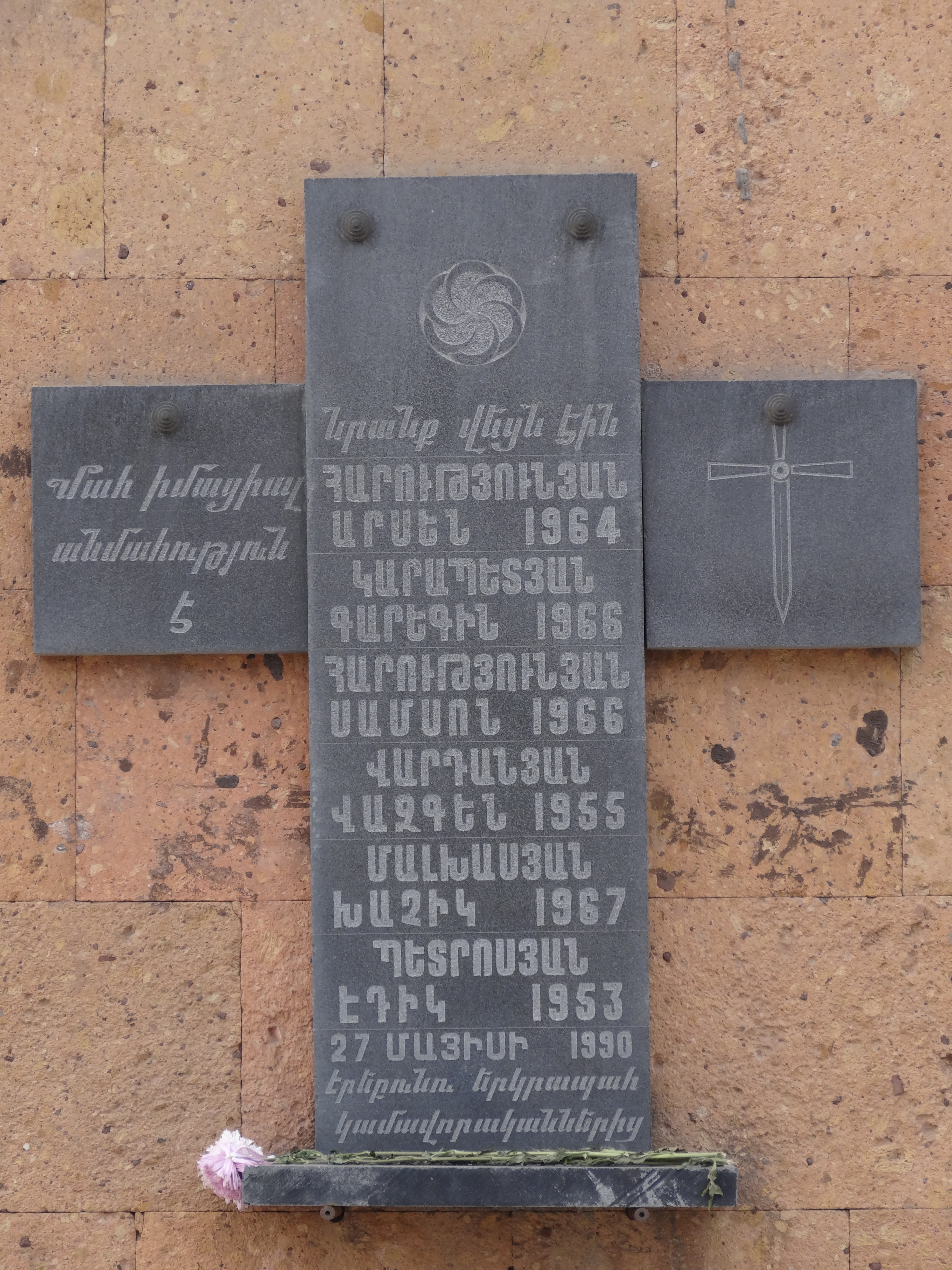 Plaques at Details of Yerevan Railway Station, Armenia